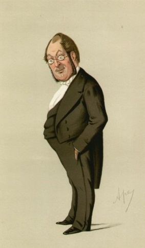 Caricature of Mr Oscar Clayton. Caption read "Fashionable surgery".